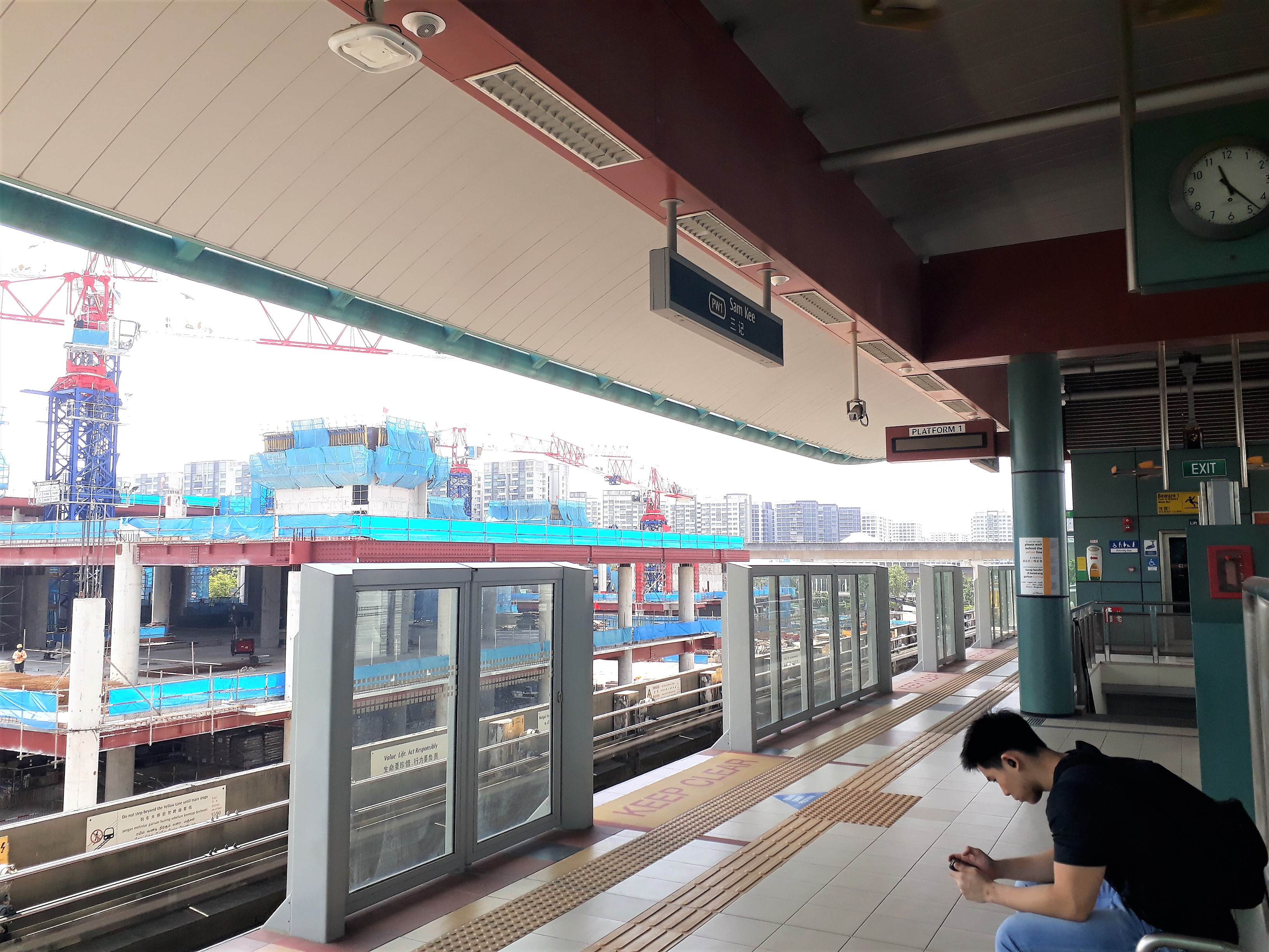 Platform 1 of Sam Kee